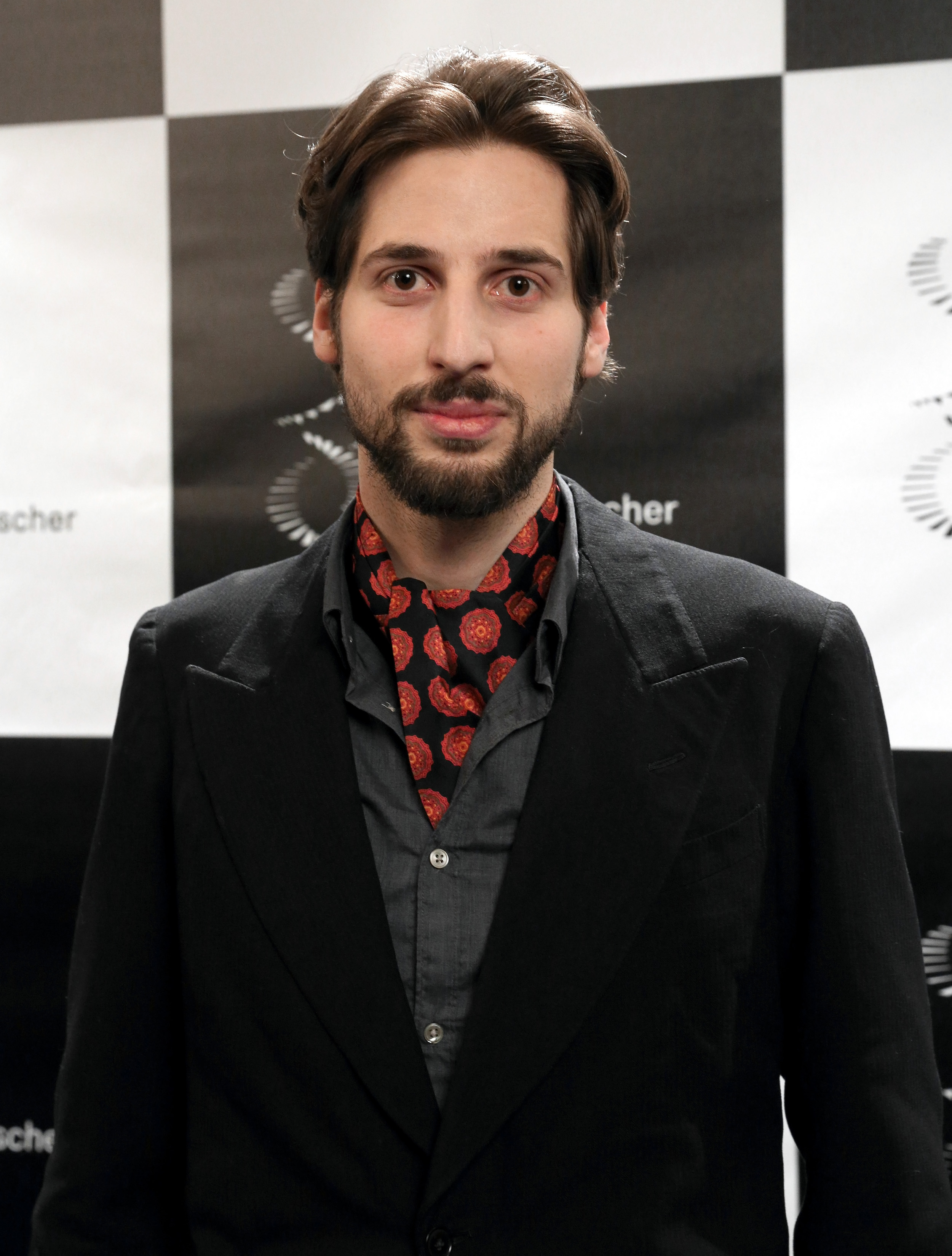 Christoph Rainer at the Austrian Film Awards 2015 at Rathaus, Vienna,Austria.